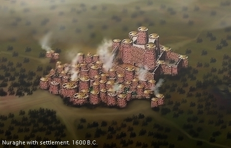 Reconstruction of nuraghe with settlement c 1600 B.C.